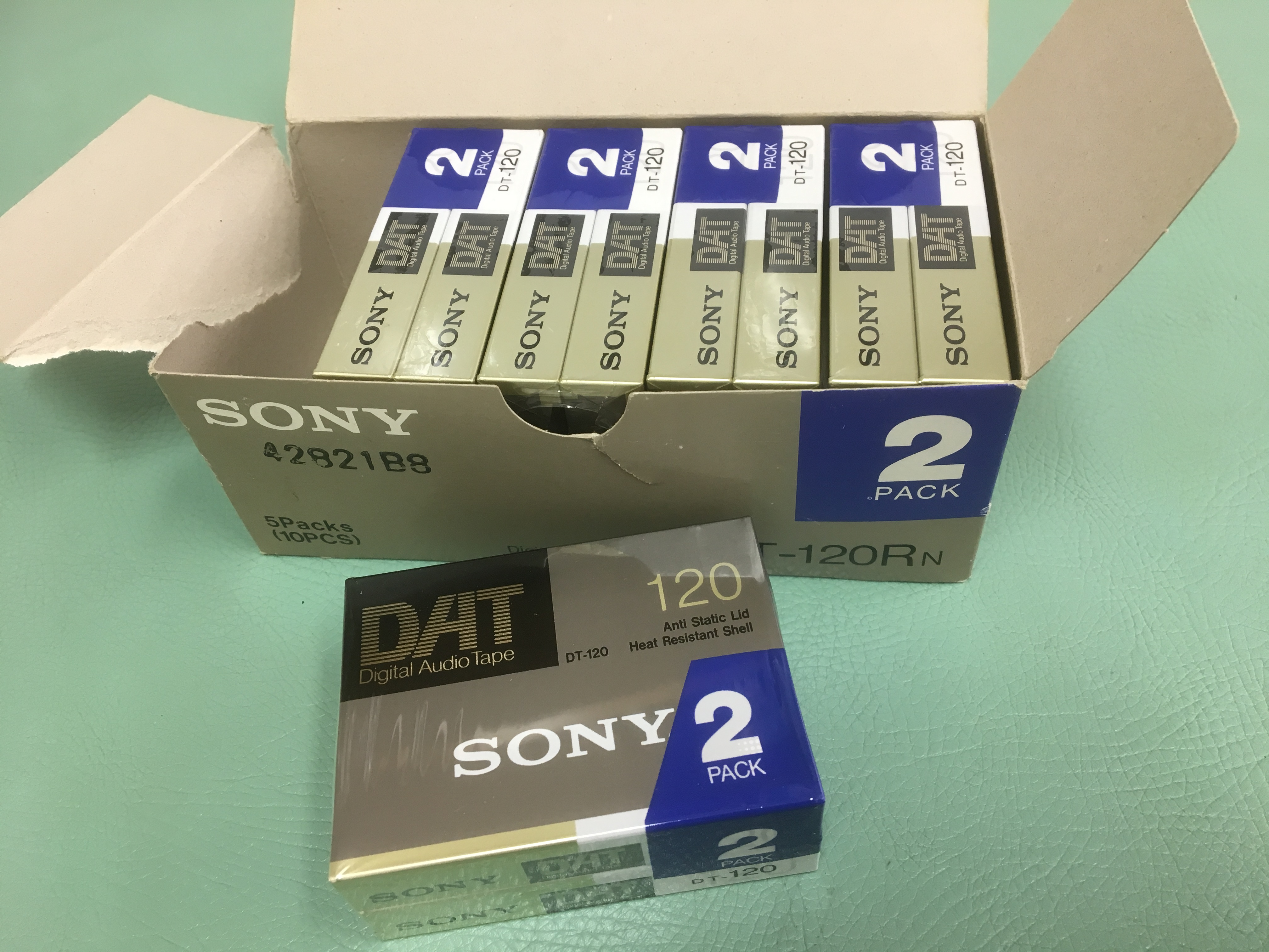 DAT Digital Audio Tape / SONY / made in japan 2000